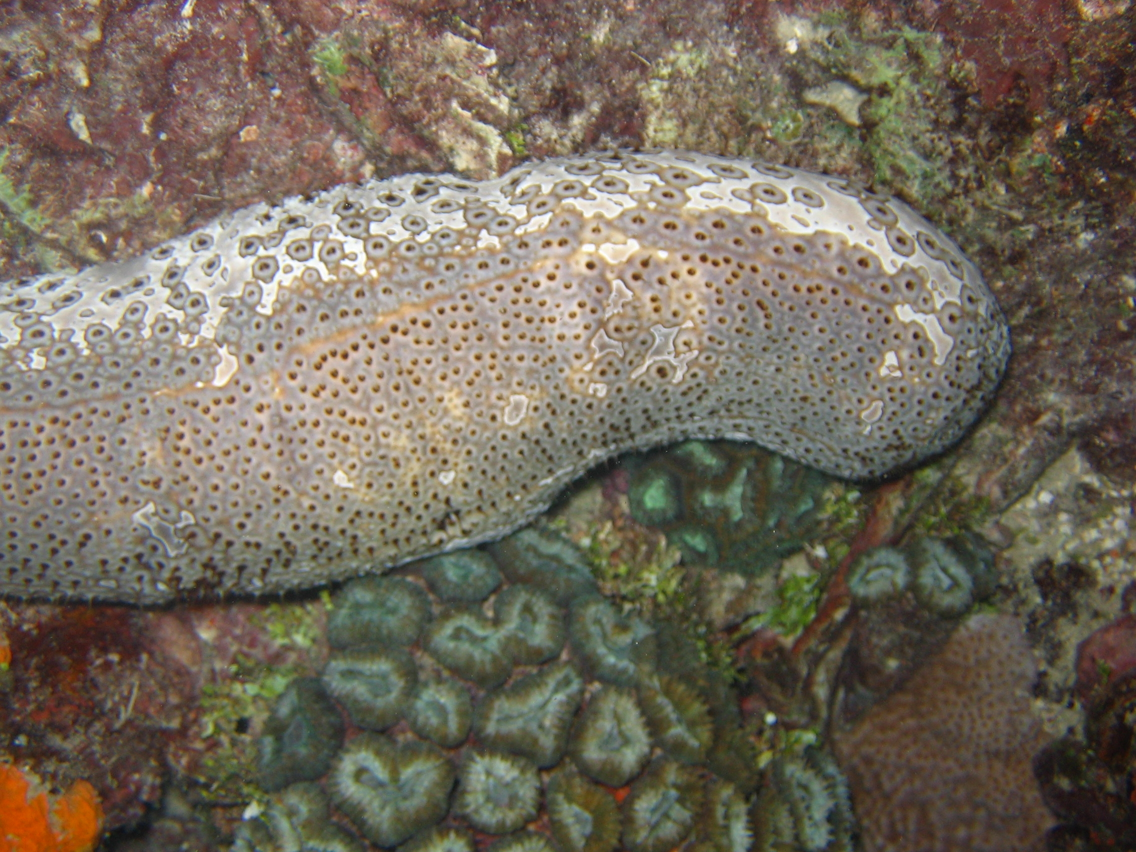 A holothurian (sea cucumber). Federated States of Micronesia, Chuuk.